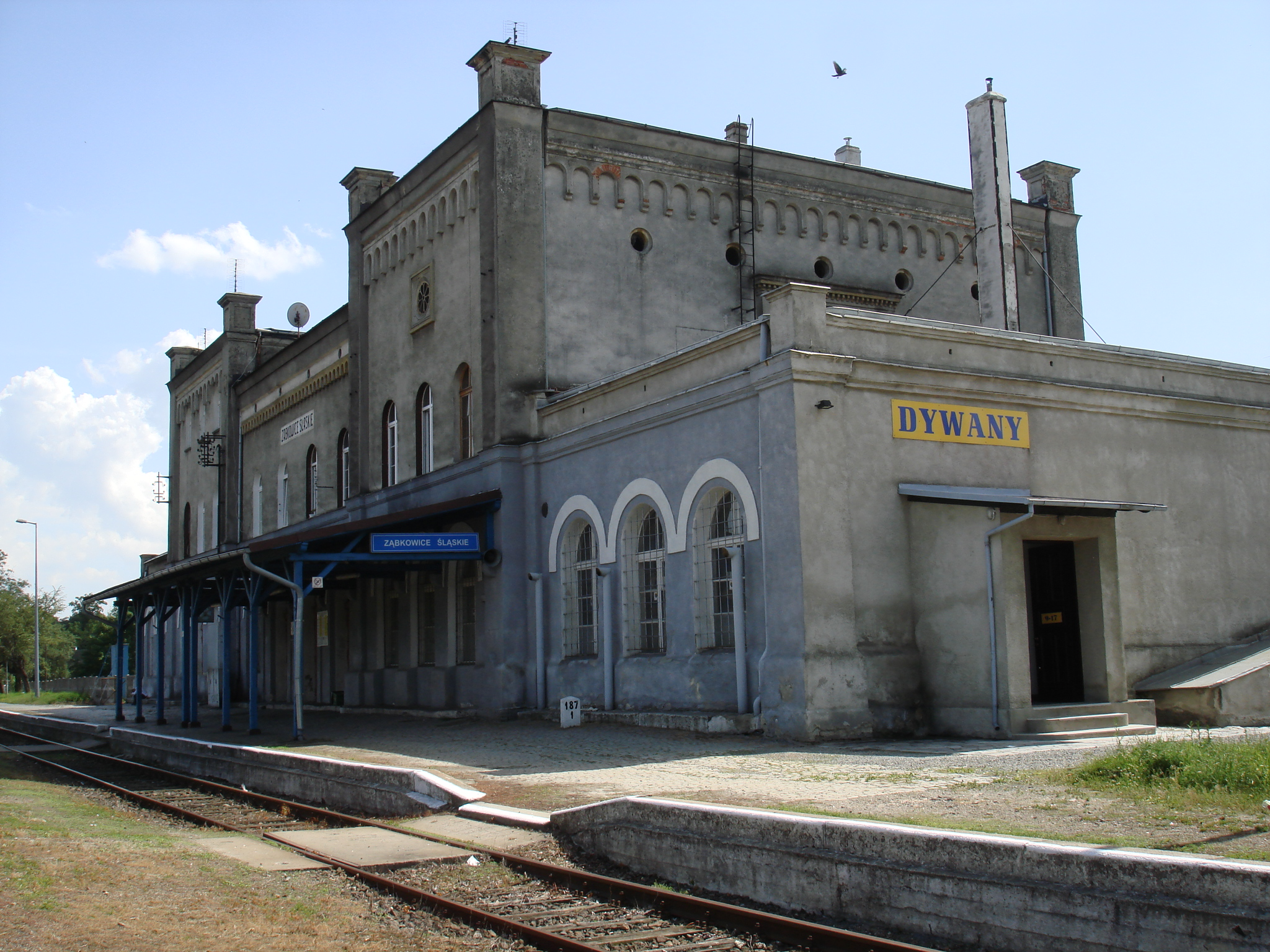 Backside of the train station in Ząbkowice Śląskie.